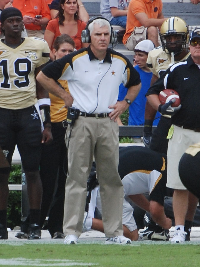 Bobby Johnson, head coach of the Vanderbilt University Commodores college football team on the sideline of the 2007 Vanderbilt vs. Auburn University game.